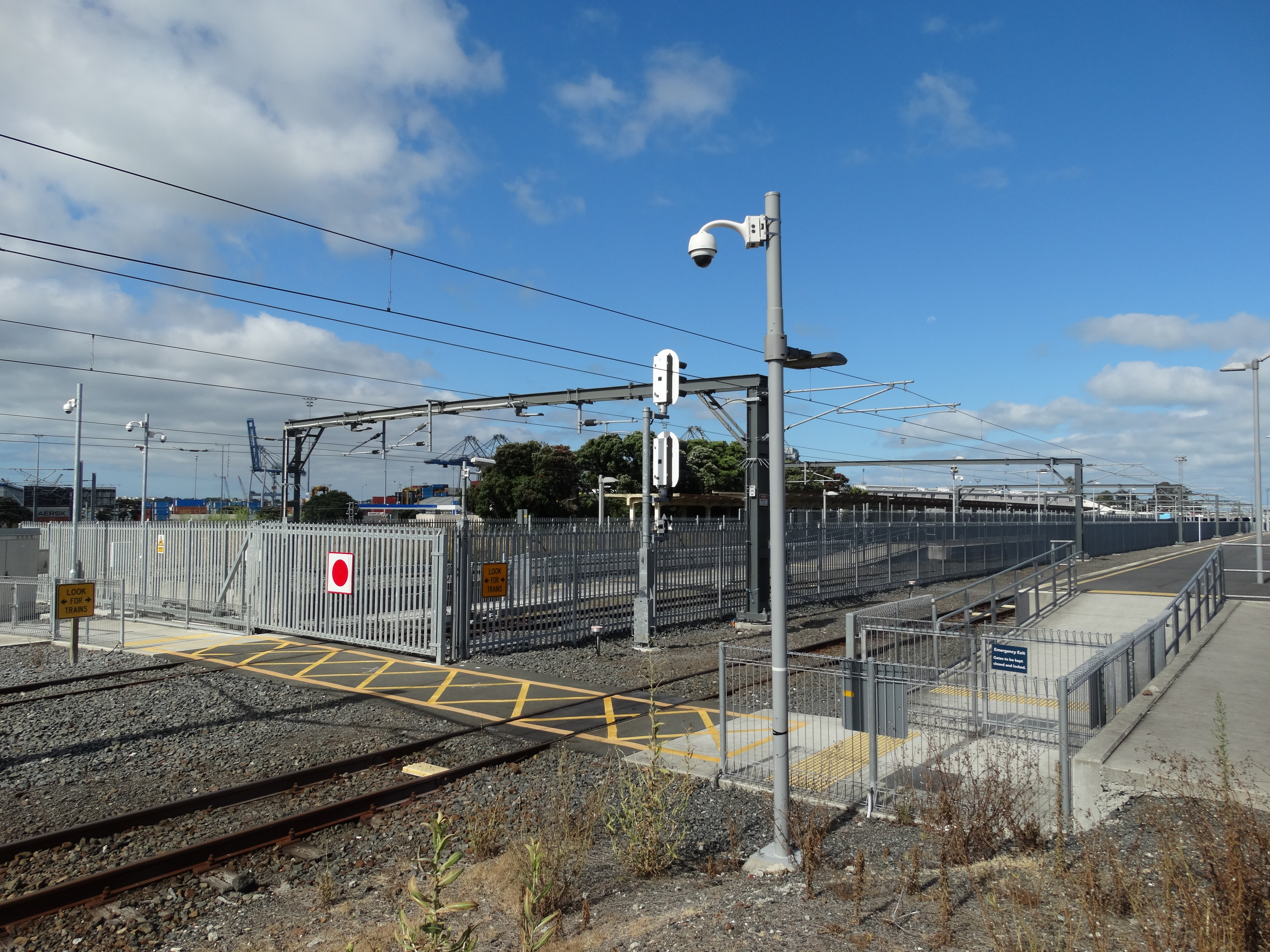 The Strand Station & Stabling Facility.